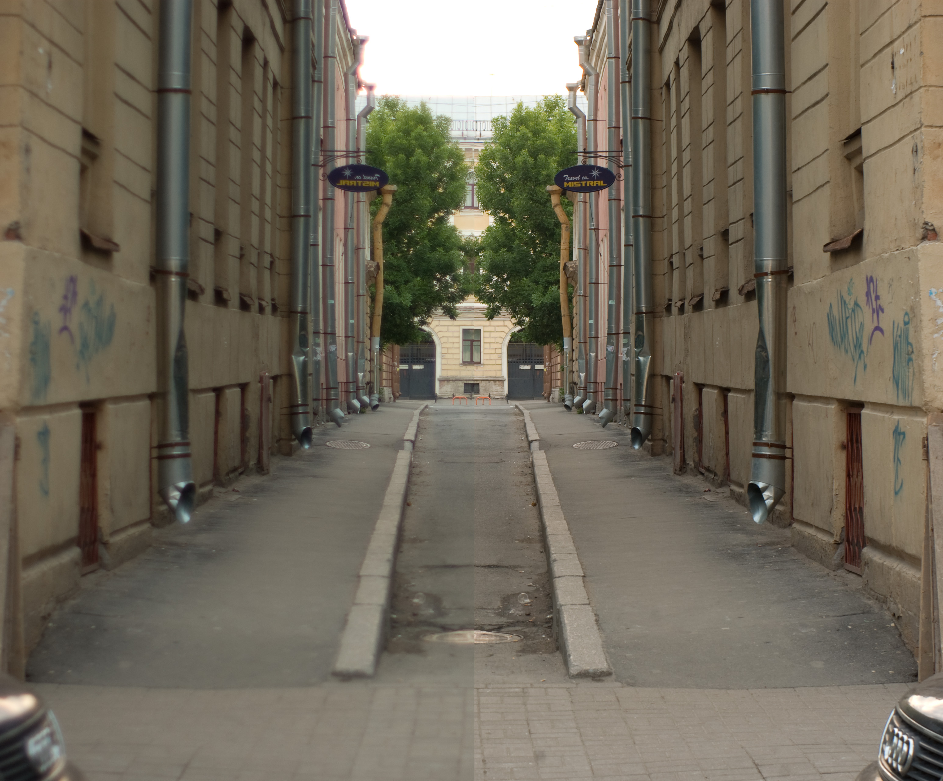 Comparation of different apertures: Left part: 50/1.4 with aperture 1.4, right: same lenes, with aperture 9.0